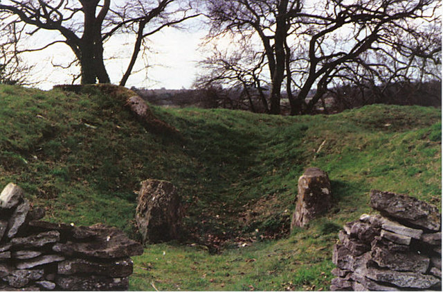 Entrance Portal Rodmarton Long Barrow These are the portal stones at the entrance to the long barrow.